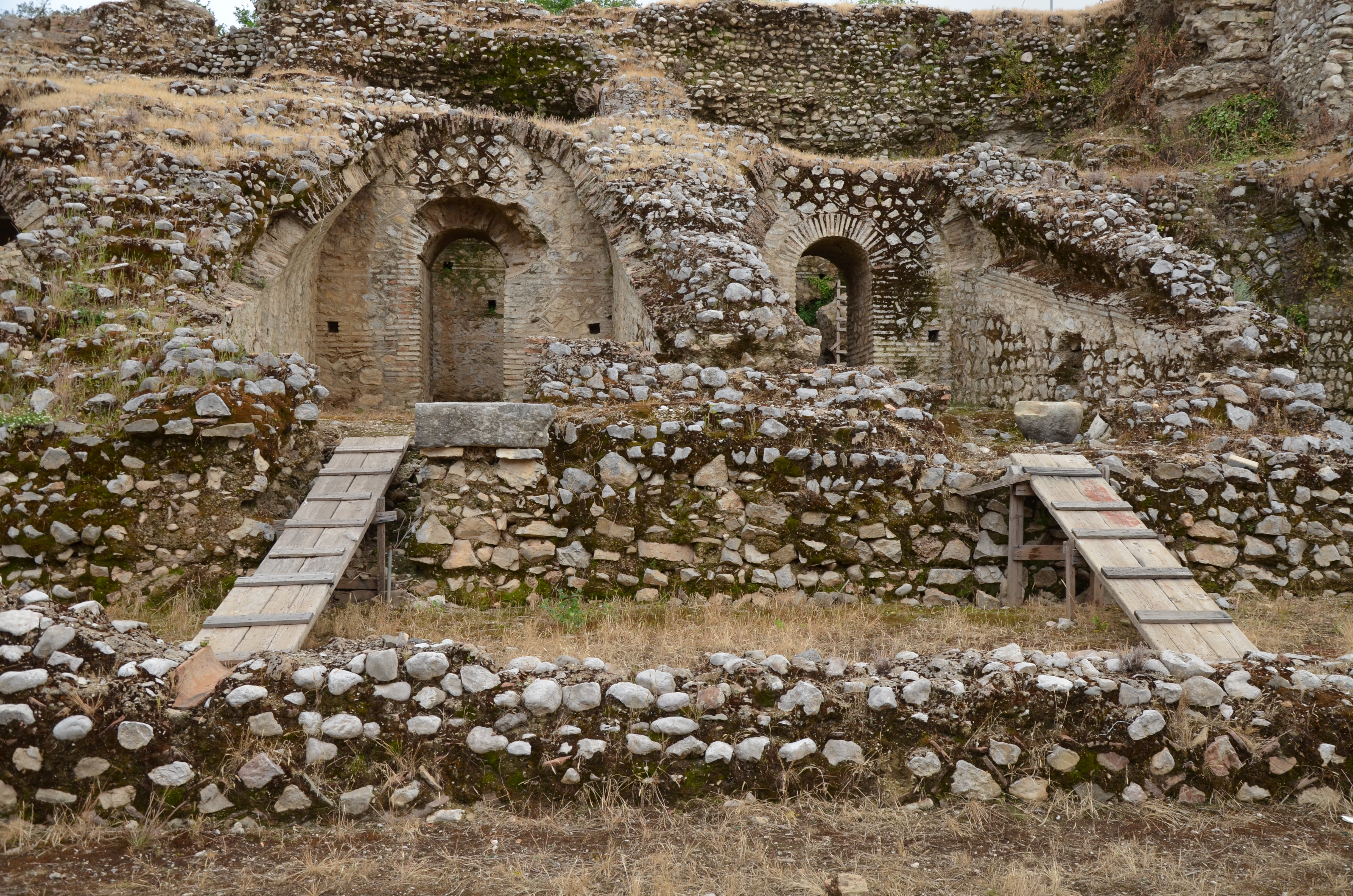 Roman stadium, built between 80-90 AD, probably a gift from the emperor Domitian, Patras, Greece